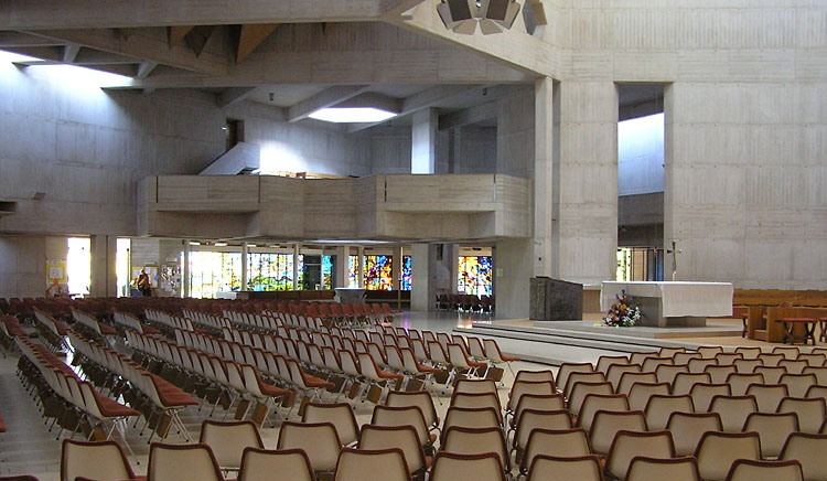 The Cathedral Church of Saints Peter and Paul is a Roman Catholic place of worship in Bristol, England. The building is better known as Clifton Cathedral. Construction started in March 1970 and was completed in June 1973. The internal walls are cast reinforced white concrete. The building seats 1000 people.